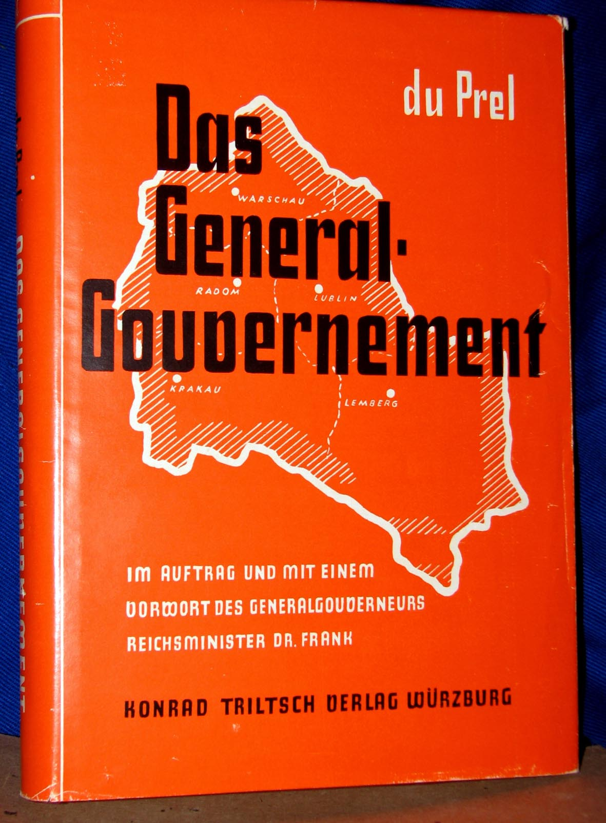 Cover of the book "Das Generalgovernement" from Maximilian du Prel, Würzburg 1942